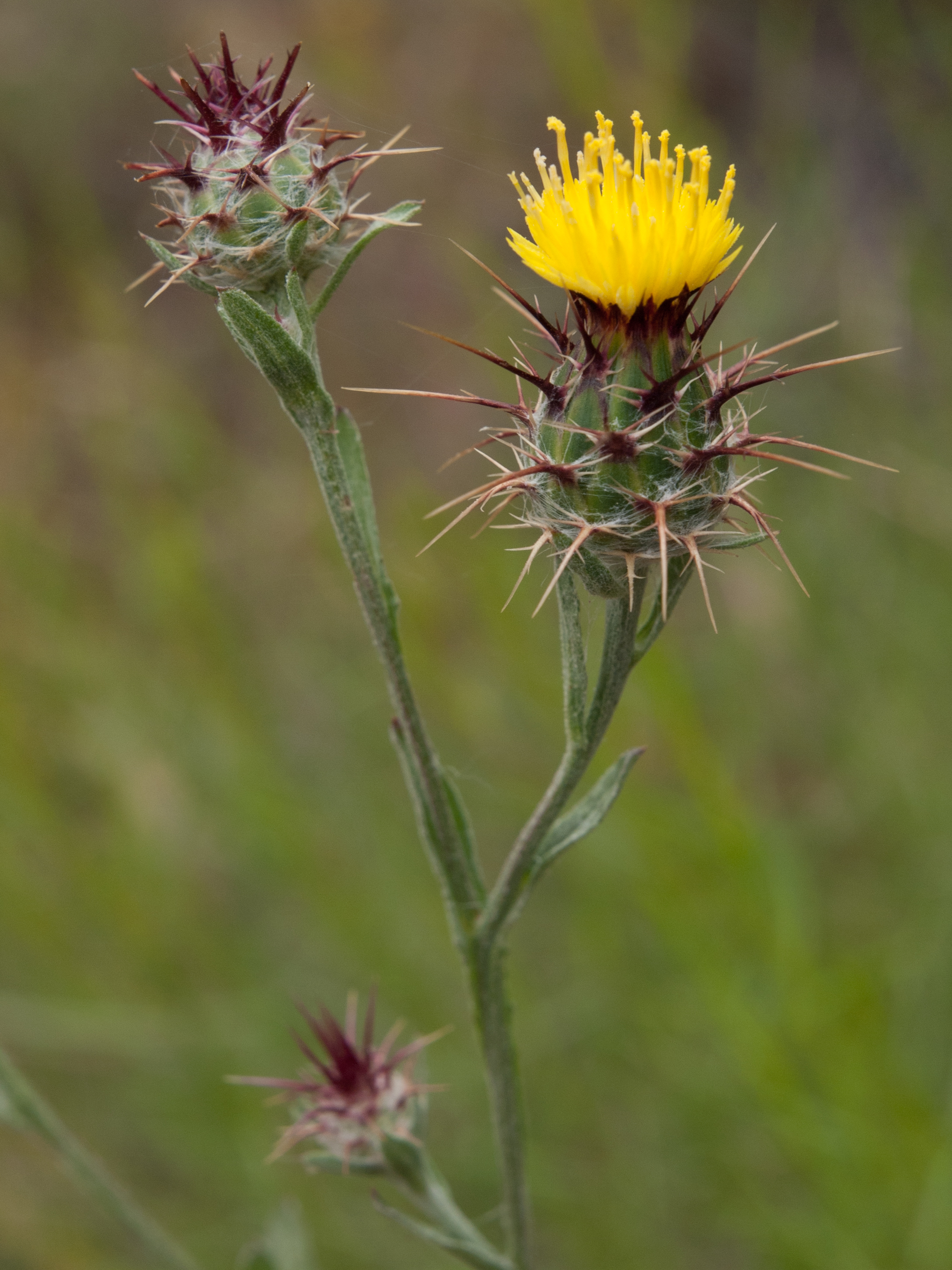 Maltese star thistle (Centaurea melitensis) Del Valle Regional Park Livermore, CA